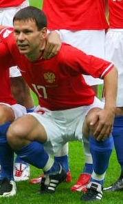 Konstantin Zyryanov before home match against FYR Macedonia